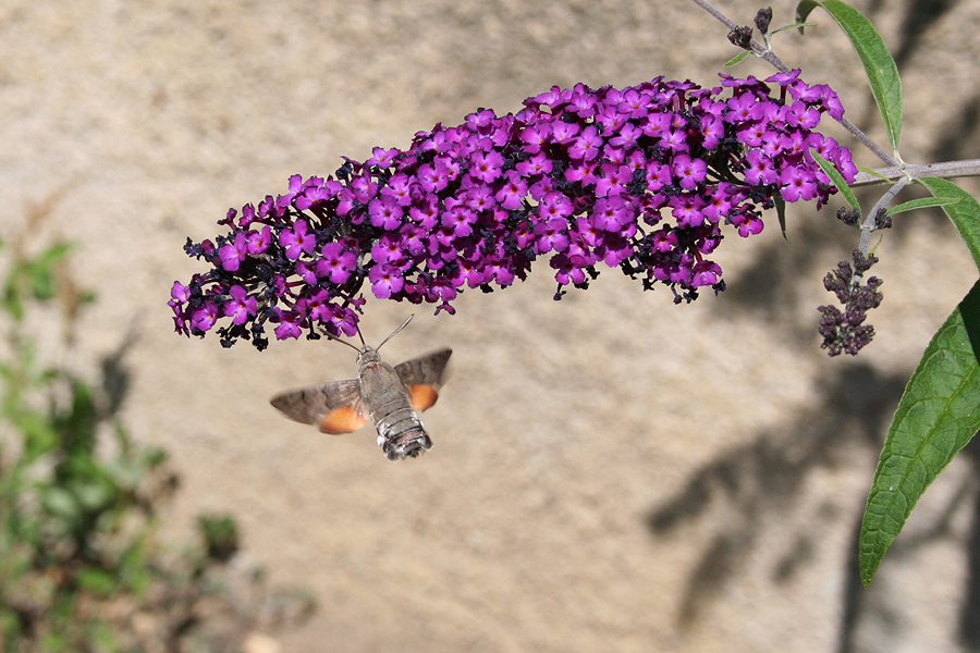 a Macroglossum stellatarum in a Buddleia davidii (butterfly tree), south-west of France